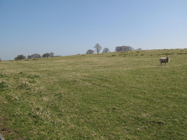 (The site of) Milecastle 50 (Stone Wall) (High House), 3 km from Gilsland, Cumbria, Great Britain.